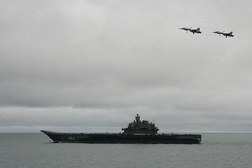 BARENTS SEA. Military exercises of the Northern Fleet.